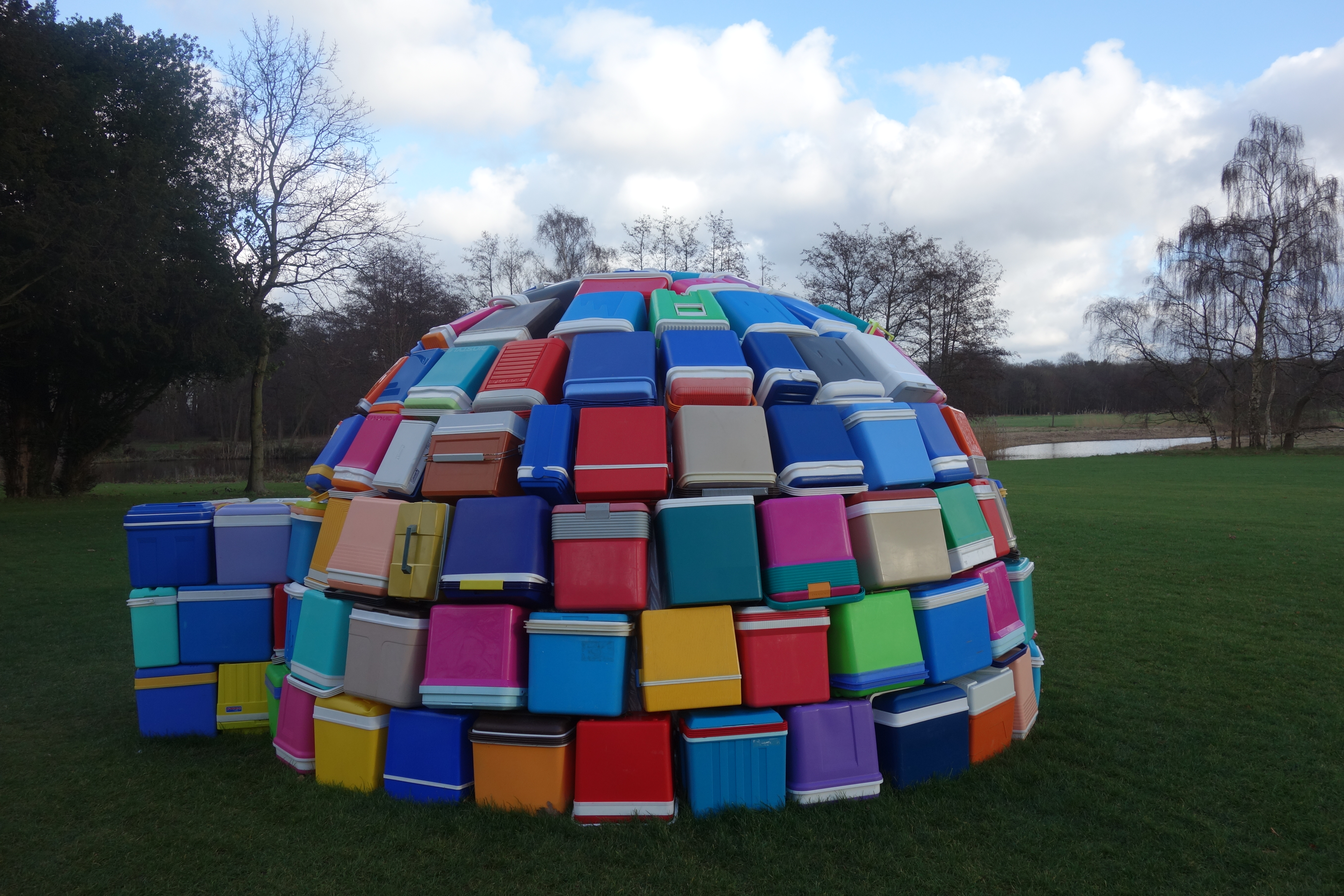 Last Summer (2014) by Michael Johansson. Dutch Museum Voorlinden (Wassenaar), 2017